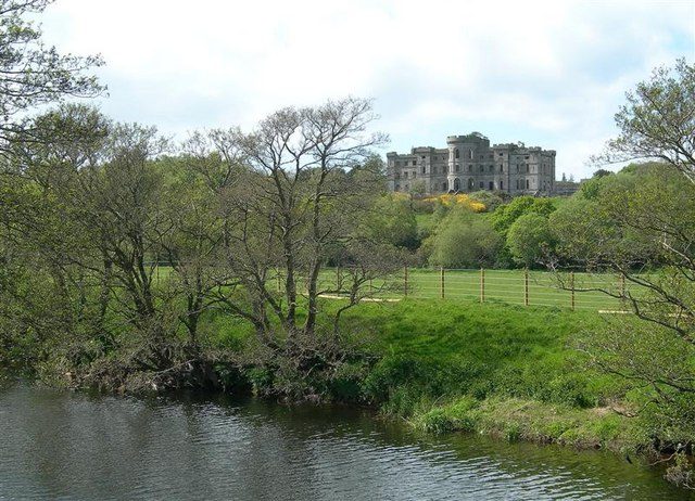 Dalquarran Mansion